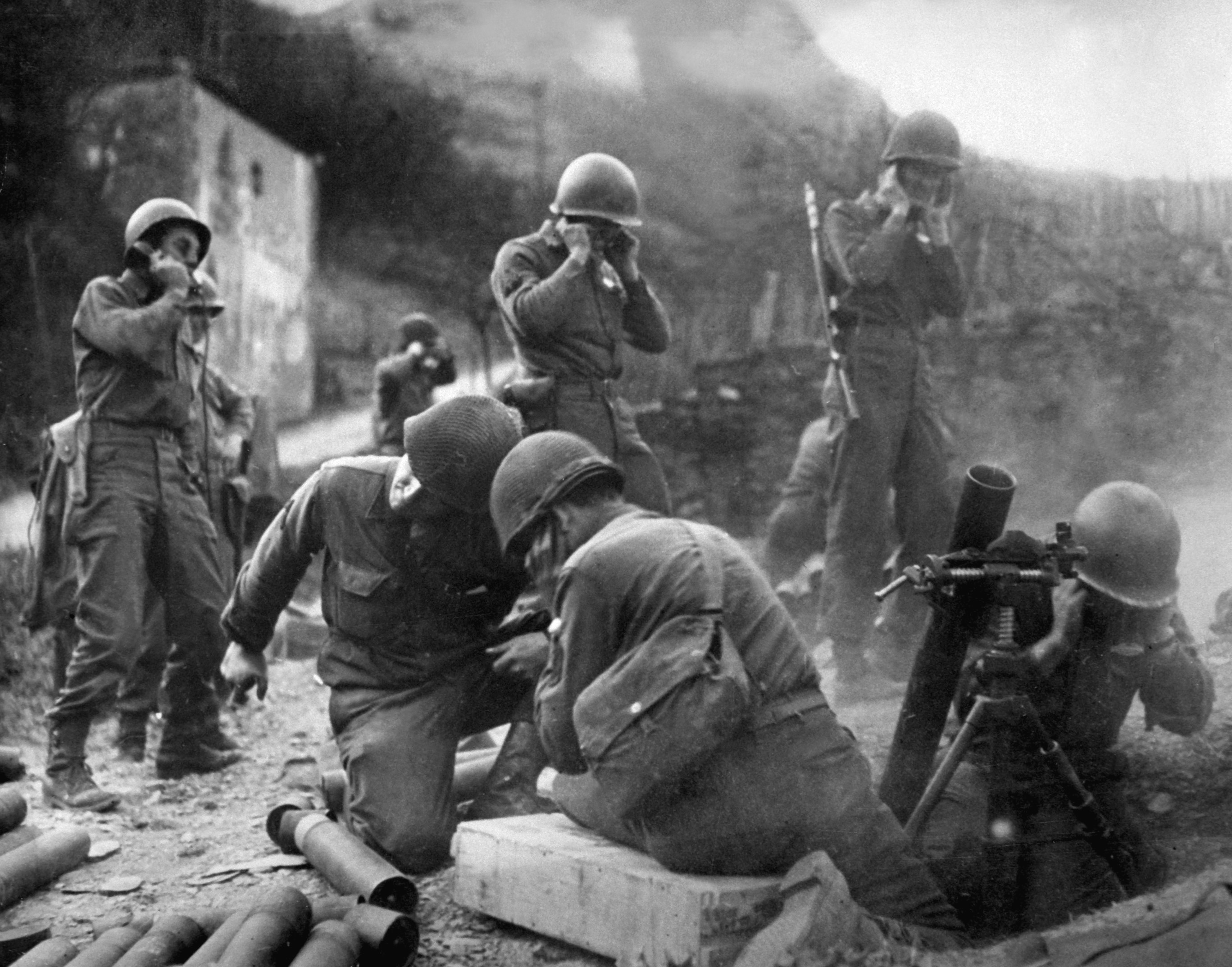 "Getting across the Rhine wasn't all there was to it. There was the little matter of establishing a beachhead. We threw our mortars at them and everything else we had untill they finally gave away."